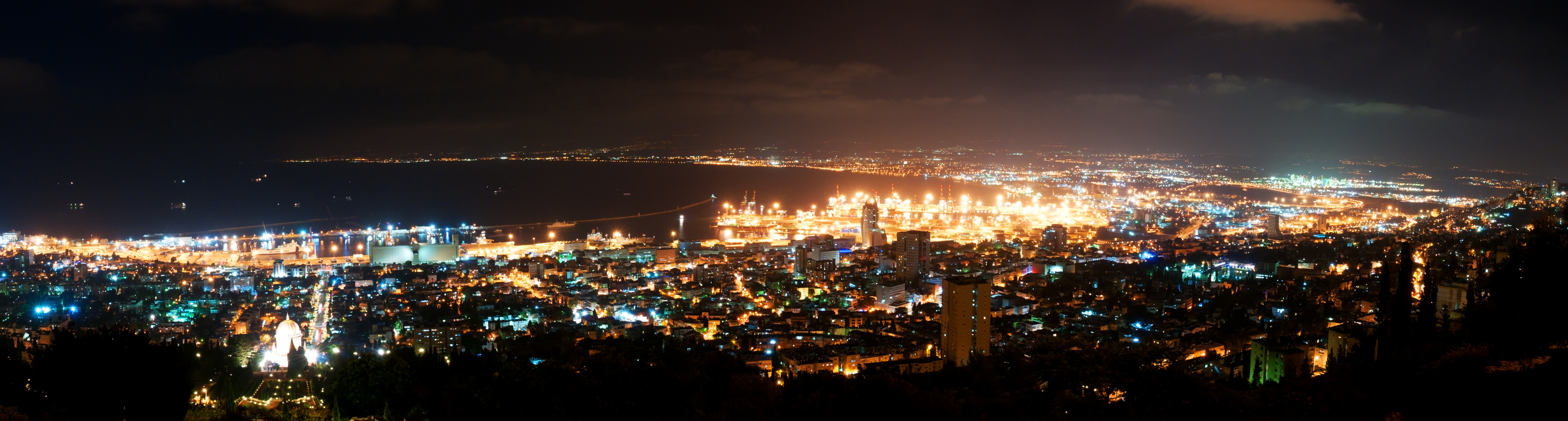 Panorama of Haifa